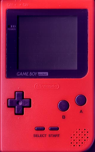 GameBoy pocket (image by Solkoll) Originally uploaded on Swedish Wikipedia 25 september 2004 kl.09.28 by Solkoll